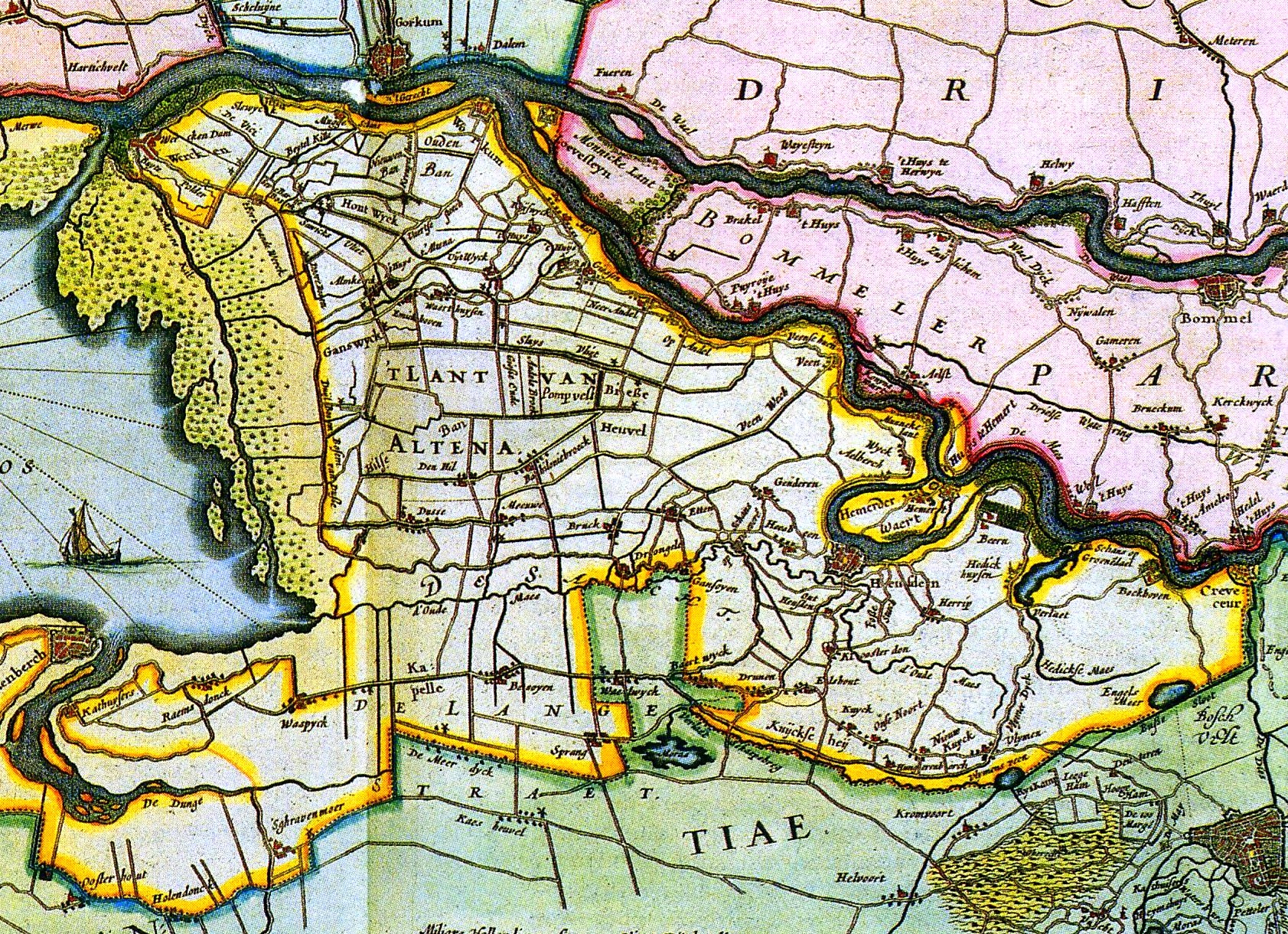 Land of Altena, Atlas Maior of Joan Blaeu